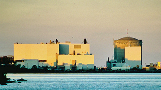 The Darlington Nuclear Generating Station, in Clarington, Ontario (Canada). Taken during sunset in June/2007 from Courtice beach. I used my Nikkor 70-210mm zoom for this, with a circular polarizer on the lens, and my tripod to keep it all steady.